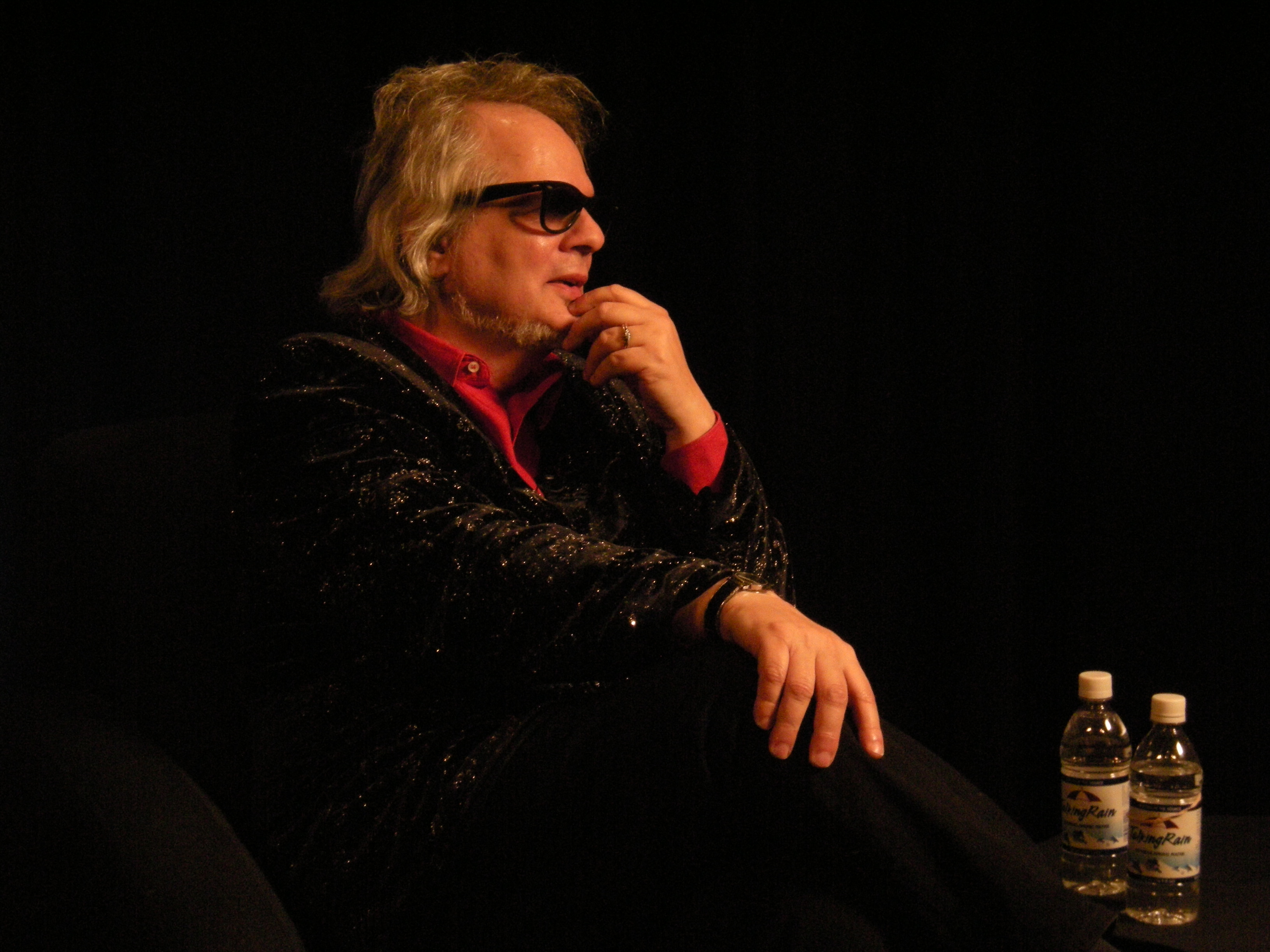 Al Kooper being interviewed as part of the "Sound + Vision" series at Experience Music Project, Seattle, Washington.